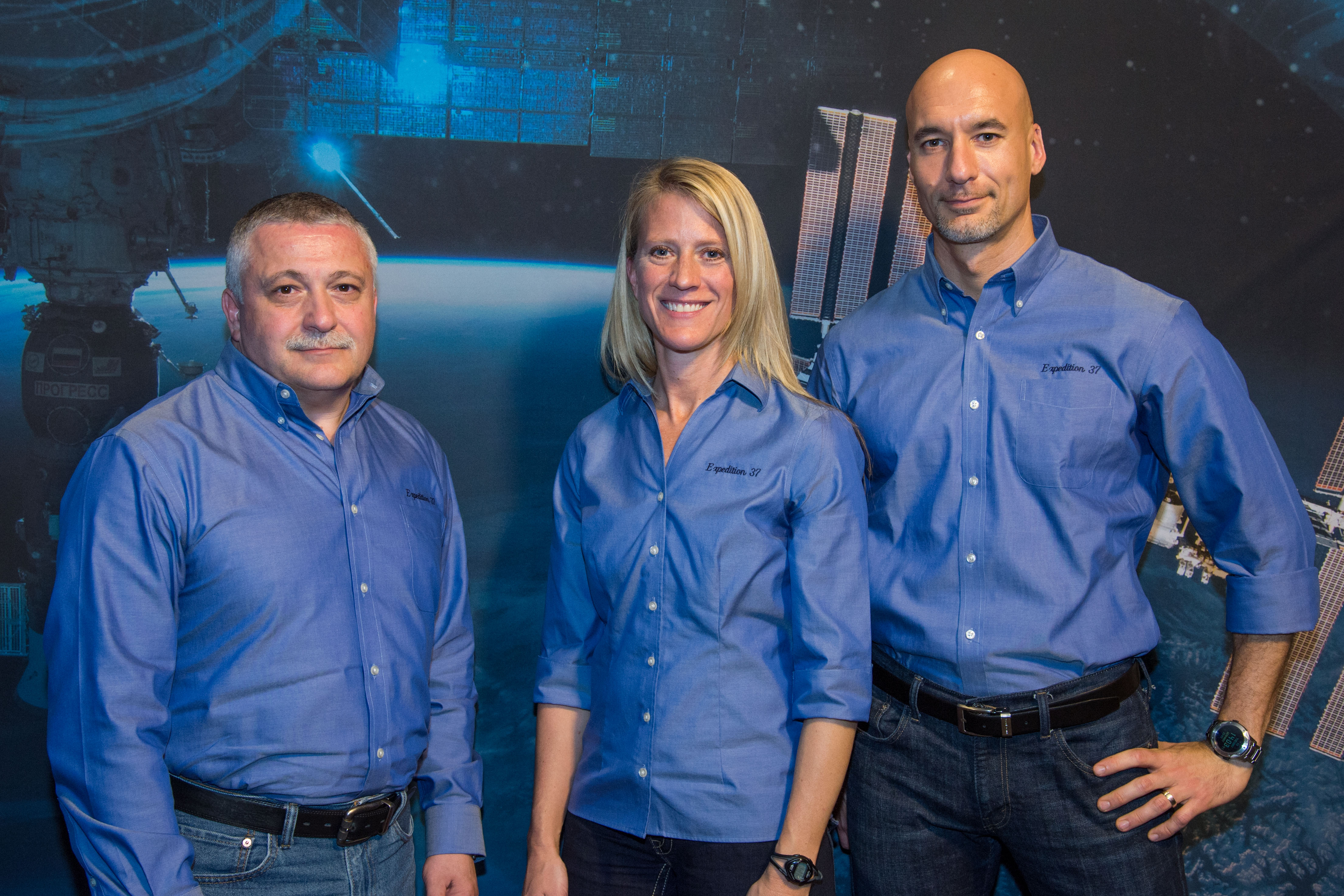 Following the March 19 Expedition 36/37 (Soyuz 35) press conference, crew members pose for pictures. From left are Russian cosmonaut Fyodor Yurchikhin, NASA astronaut Karen Nyberg and European Space Agency astronaut Luca Parmitano. The trio earlier fielded questions from reporters and social media representatives.